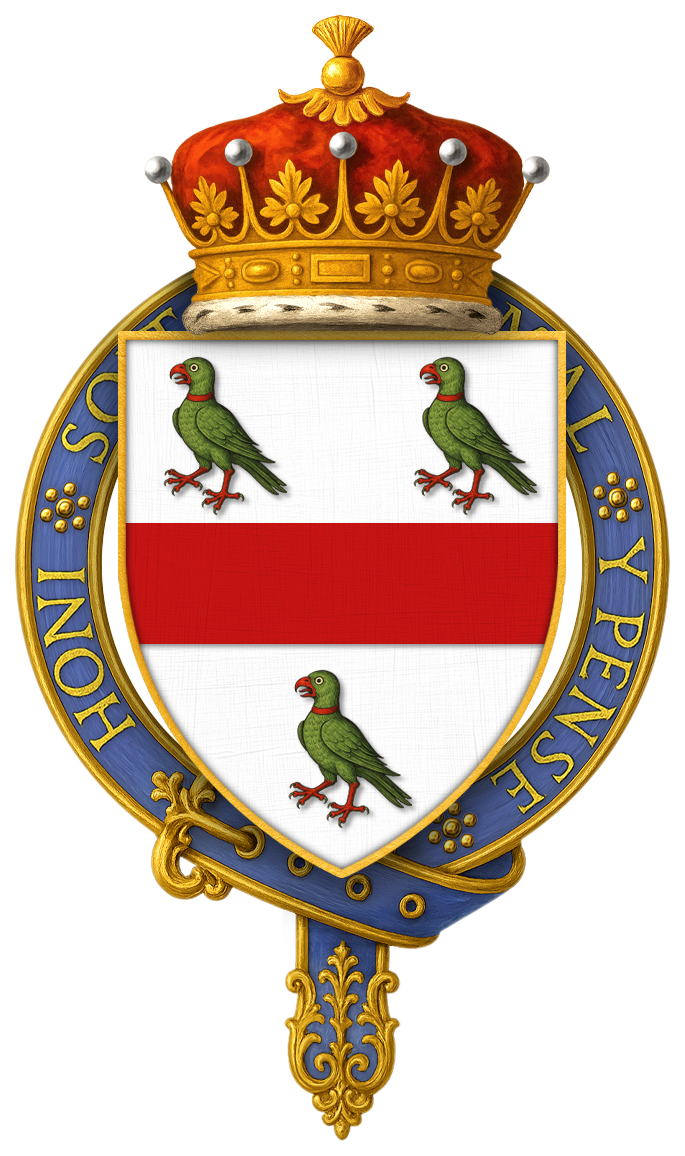 Gartered-encircled coat of arms of Roger Lumley, 11th Earl of Scarbrough, KG, as displayed on his Order of the Garter stall plate in St. George's Chapel, Windsor Castle.